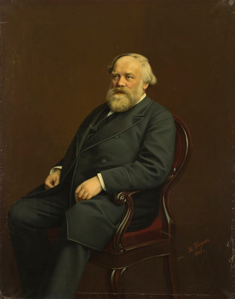 Kokorev Vasiliy Alexandrovich (by Ivan Tyurin)